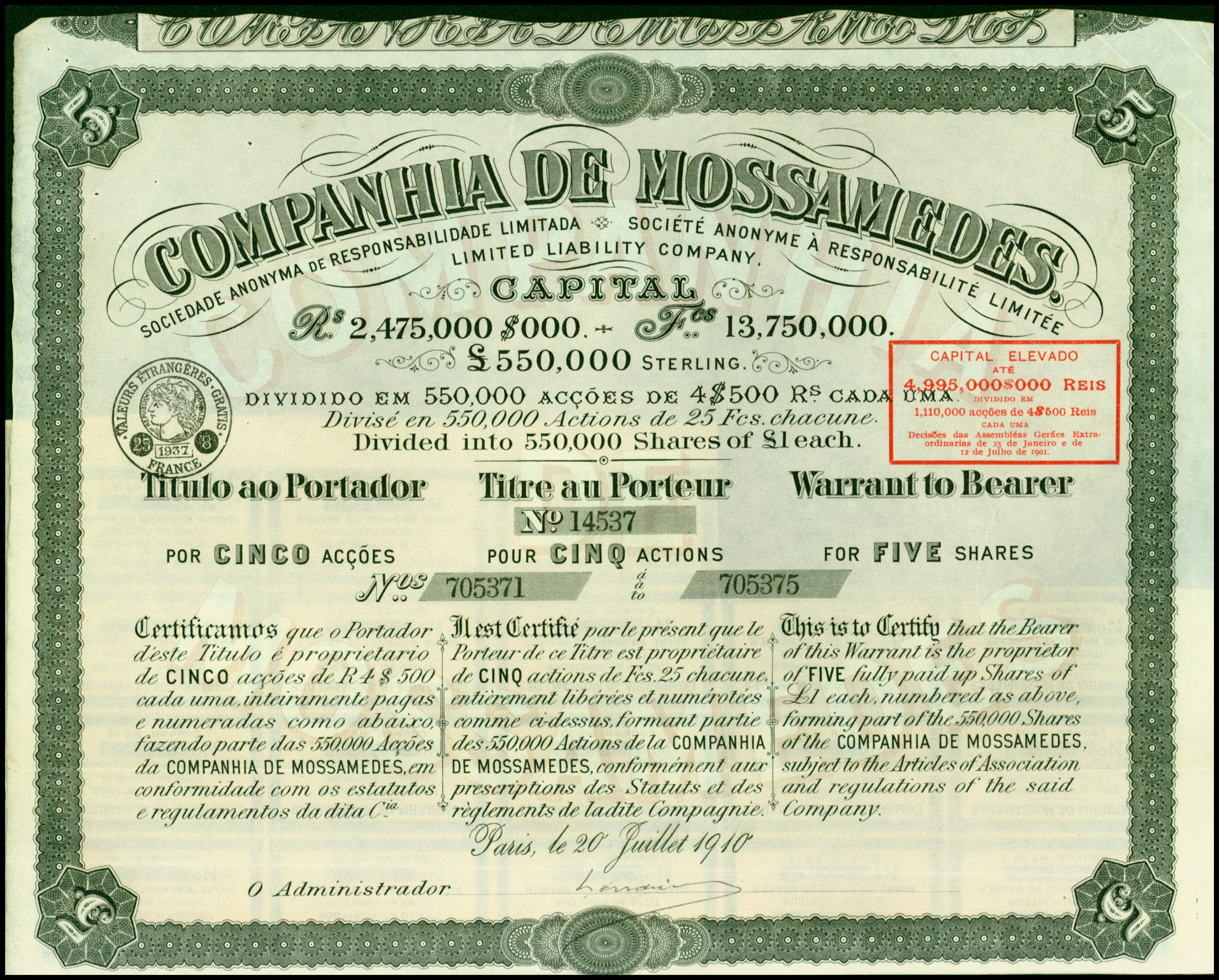 Share of the Companhia de Mossamedes, issued 20. July 1910